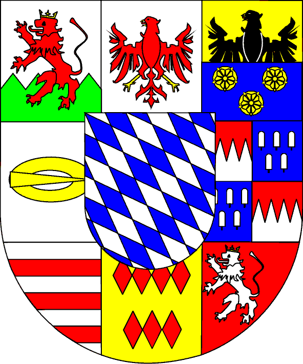 coats of arms of the county of Löwenstein-Wertheim-Freudenberg till 1816; 1: county of Löwnestein, 2: lordship of Montaigu, 3: county of Wertheim, 4: county of Rochefort, 6: county of Limpurg, 7: lordship of Breuberg, 8: county of Virneburg, 9: lordship of Scharfeneck; heart: duchy of Bavaria